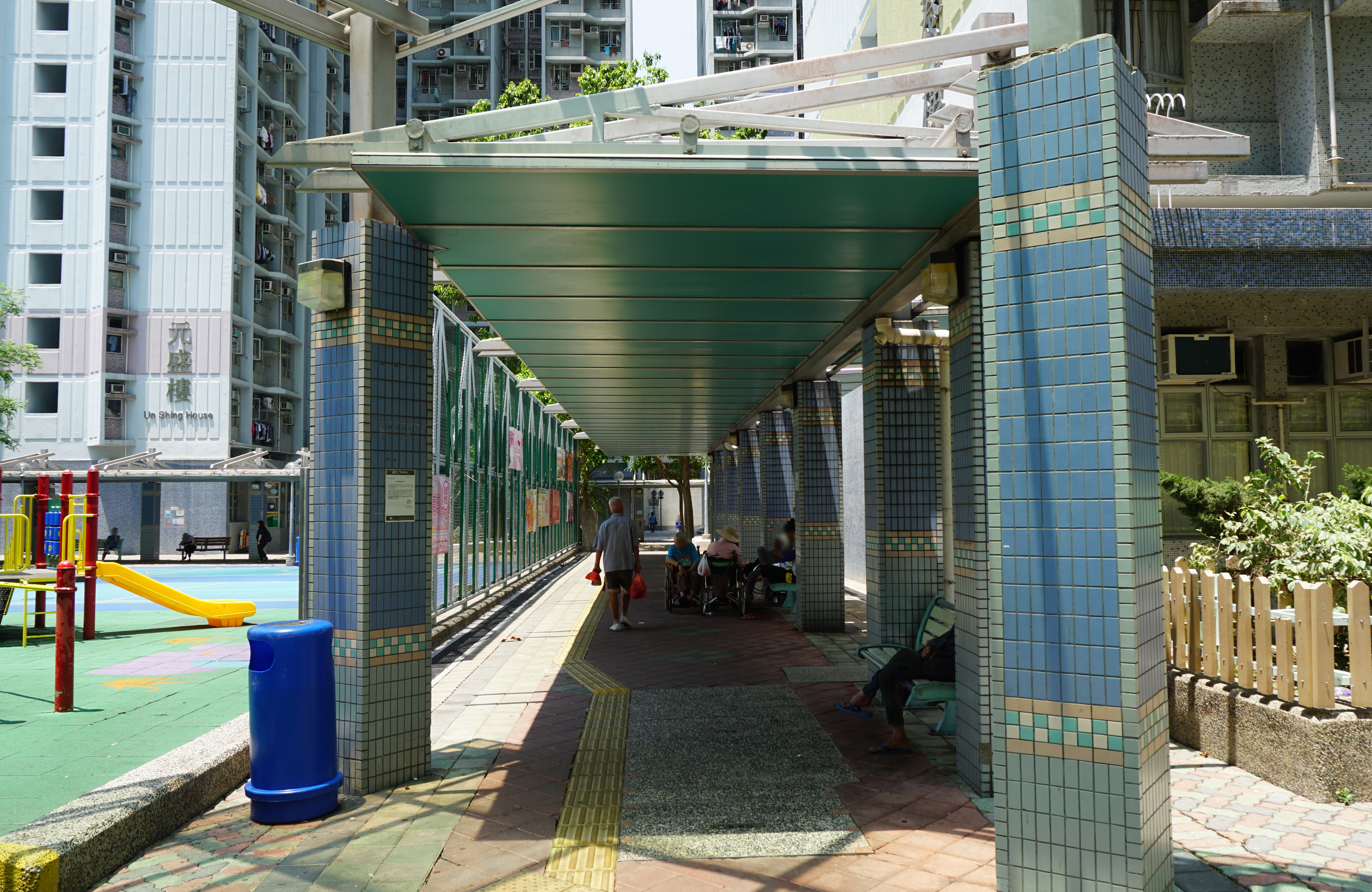 Un Chau Estate in Cheung Sha Wan, Hong Kong.